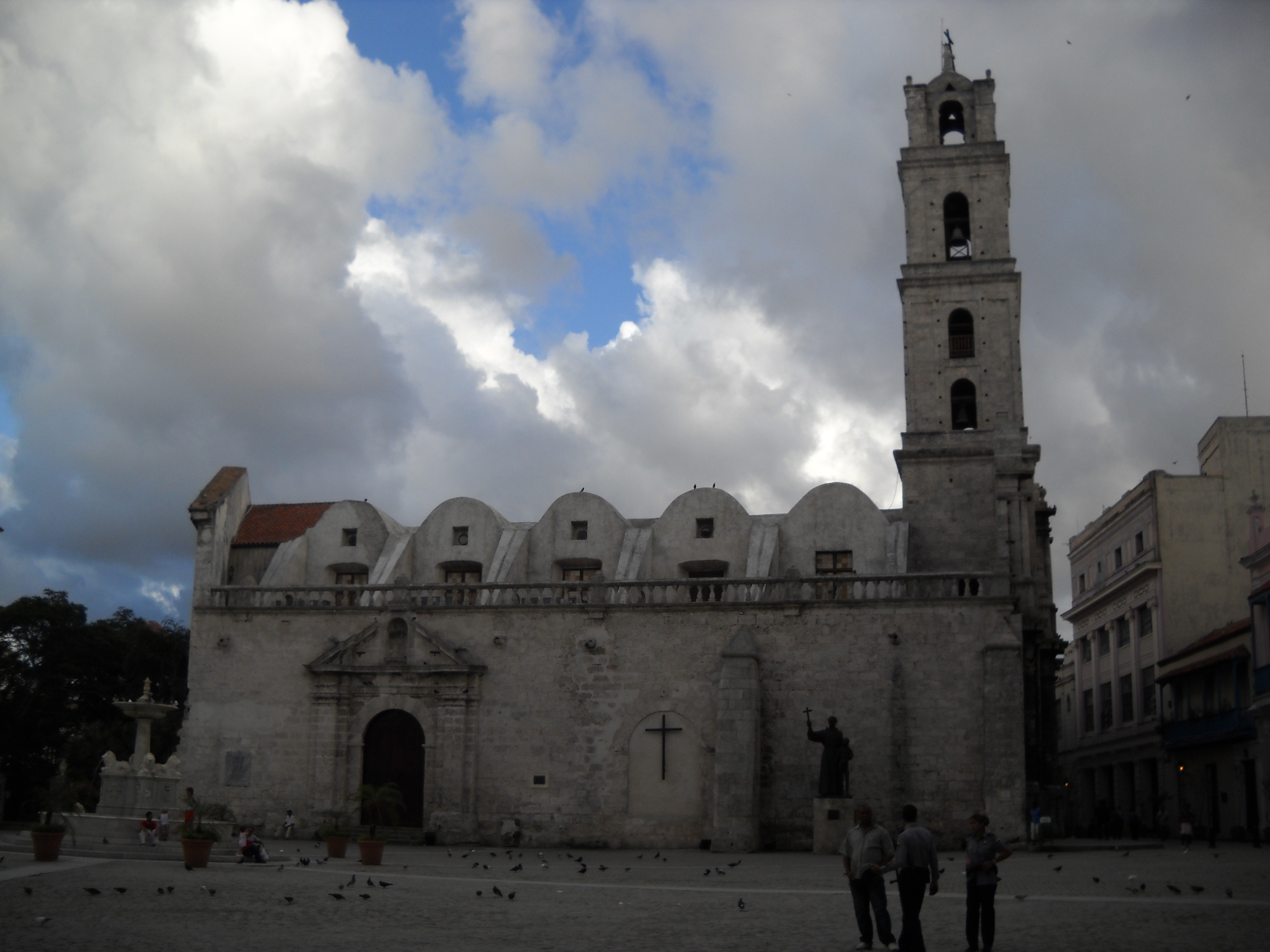 Basilica Menor de San Francisco de Asis, and its bell tower, in Havana, Cuba